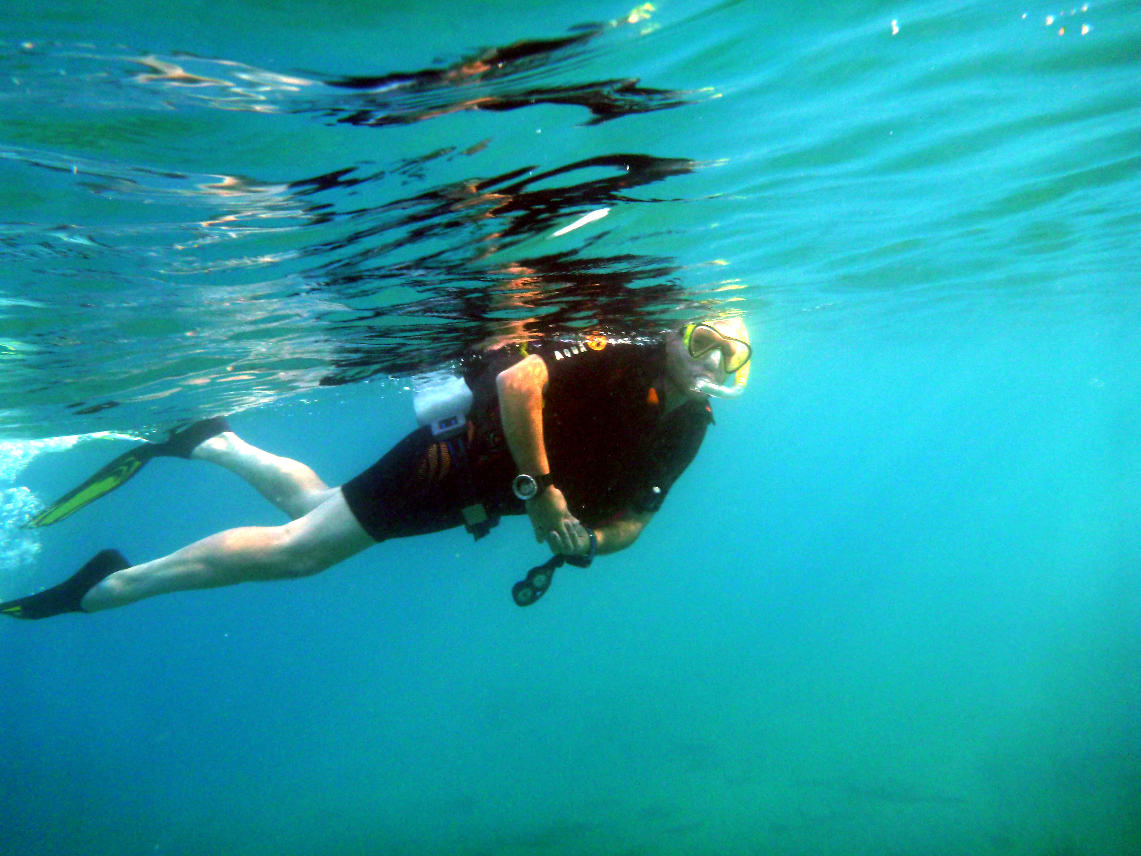 Scuba diver snorkeling on the way to the dive spot